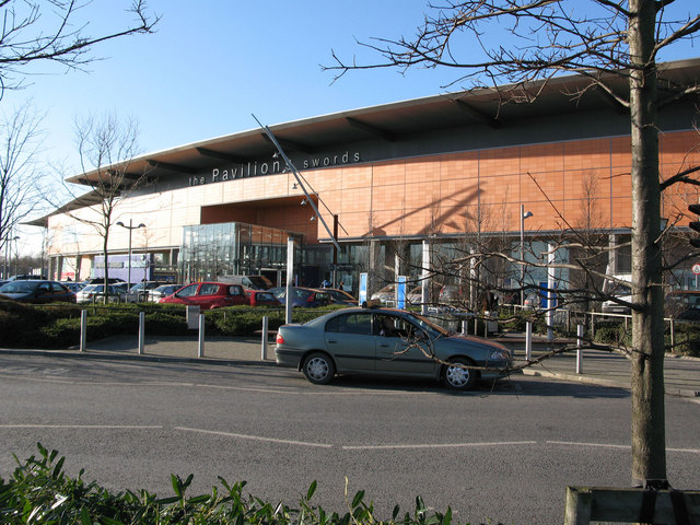 Pavilions Shopping Centre, Swords, County Dublin A large pleasant, shopping centre in Swords town centre.